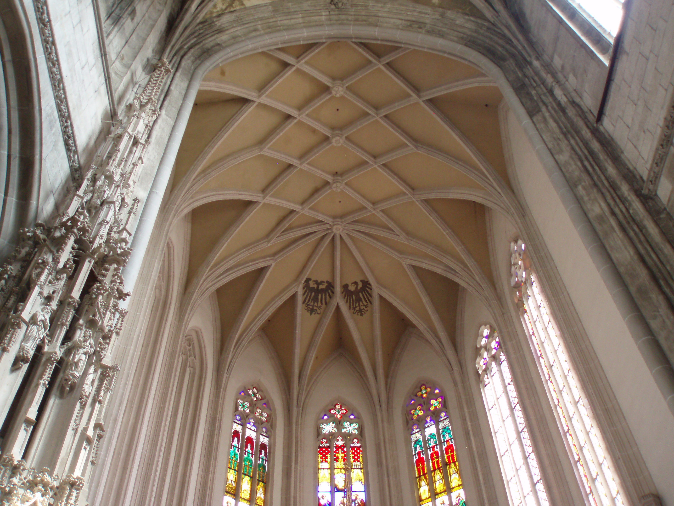 Sanctuary, gothic arch, St.Elisabeth Košice